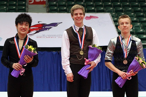 The men's podium at the 2010-2011 ISU Junior Grand Prix Final. From left: Yan Han (2nd), Richard Dornbush (1st), Andrei Rogozine (3rd).